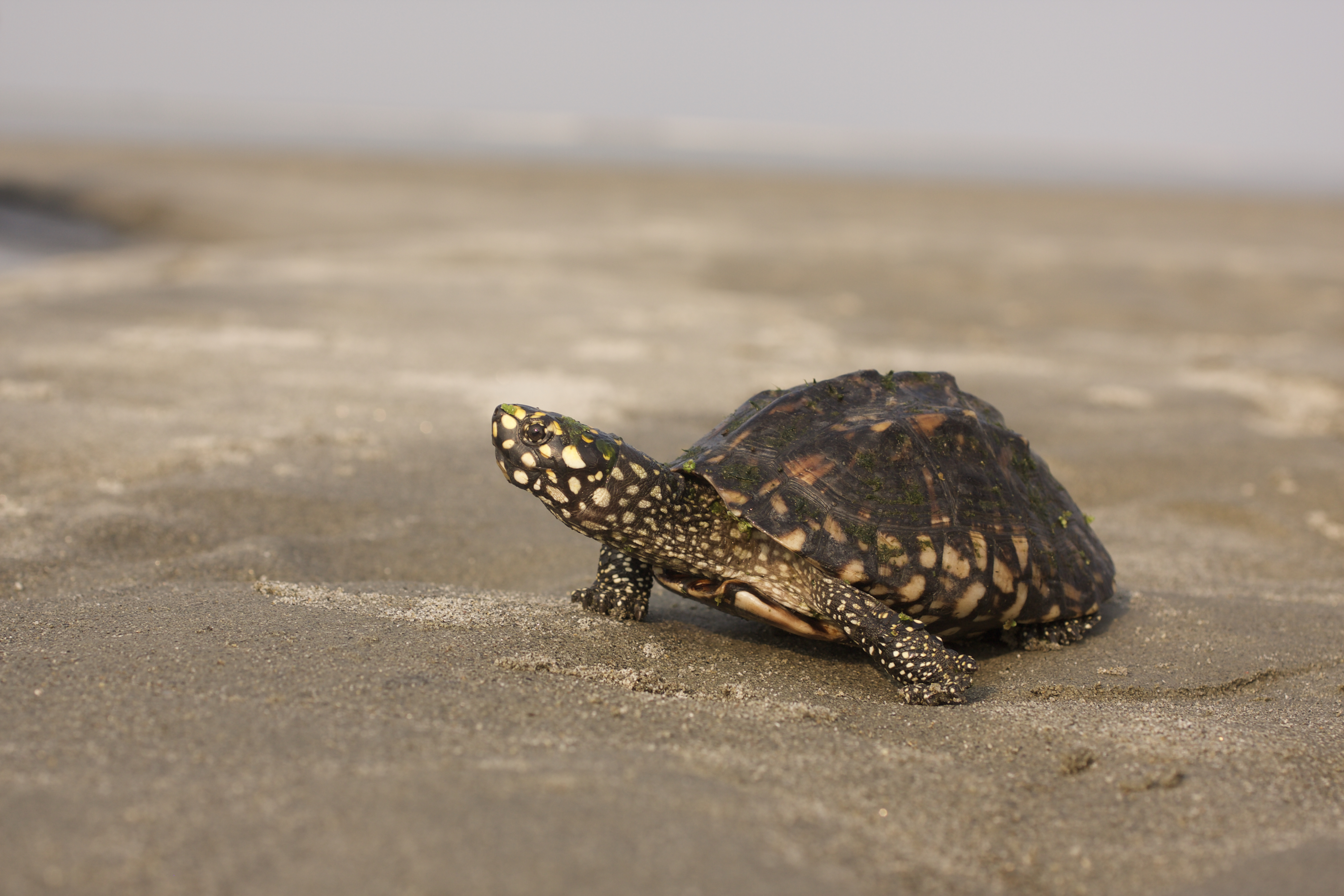 Photo taken at Biswanath Ghat, Assam, India